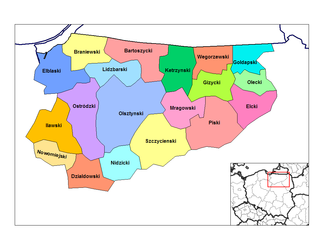 Map of the "powiat ziemski" (land counties) without "powiat grodzki" (Independent cities) of Warmian-Masurian voivodeship (województwo warmińsko-mazurskie) in Poland. Created by Rarelibra 22:29, 2 January 2007 (UTC) for public domain use, using MapInfo Professional v8.5 and various mapping resources.